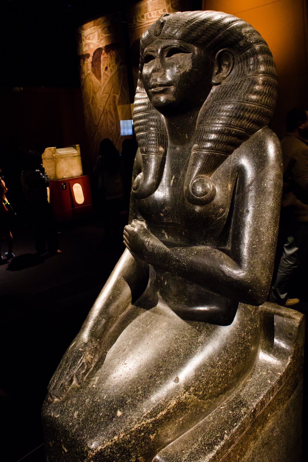 A beautifully carved grandiorite statue of Nofret II, a queen of pharaoh Senusret II during the 12th dynasty of Egypt’s Middle Kingdom Period. This object is today part of the permanent collection of the Cairo Museum of Egypt. This photo was taken at the King Tut exhibition at the Pacific Science Center in Seattle, Washington State, USA in May 2012.